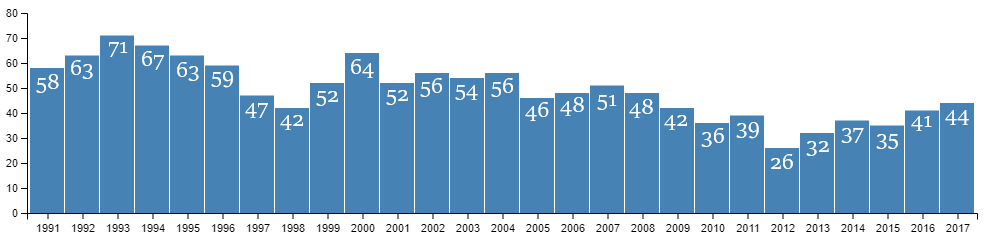 Population of Greenlandic settlement Nutaarmiut in 1991-2017